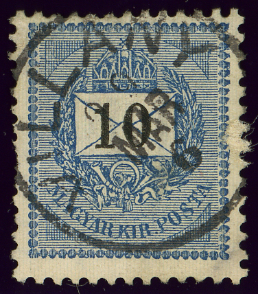 Kingdom of Hungary, 10 kr stamp, issue 1898, cancelled at VILLANY (Baranya County) in 1900 (Hungary).